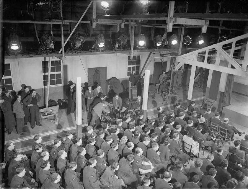 Coastal Command- the Production of a Ministry of Information Film at Pinewood Studios, Iver Heath, Buckinghamshire, England, UK, March 1942 A production scene from 'Coastal Command', a film made by the Crown Film Unit at the New Studios, Pinewood, at Iver Heath in Buckinghamshire. This scene features an audience awaiting the beginning of an RAF 'Gang Show' in a Hebridean Village Hall. The edge of the set is clearly visible, as is the lighting gantry at the top of picture. Members of the production crew can be seen in the left background, and in the centre background, the camera operators can be seen, executing a tracking shot along the side of the audience.